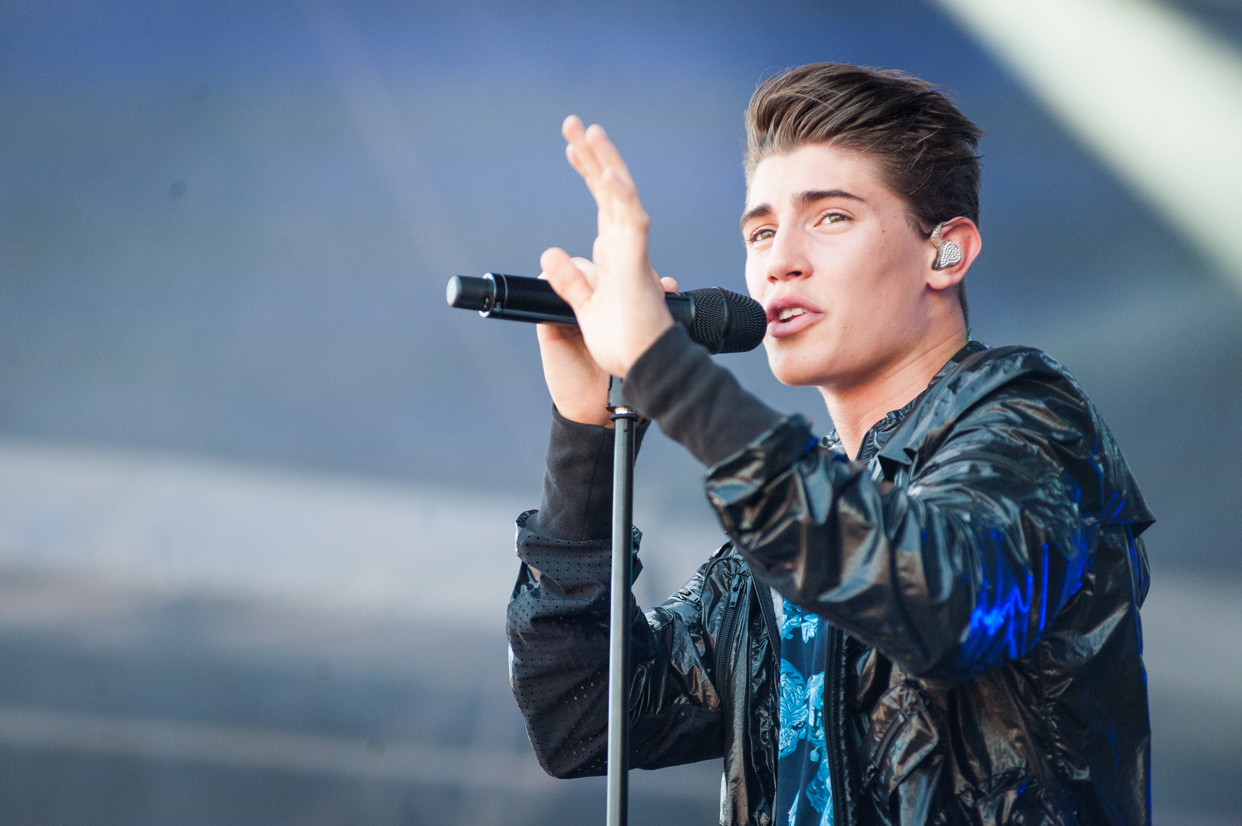 Finnish pop singer Robin performing at the 2015 Ilosaarirock festival in Joensuu, Finland.